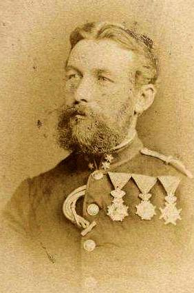 Portrait of Anton Lux